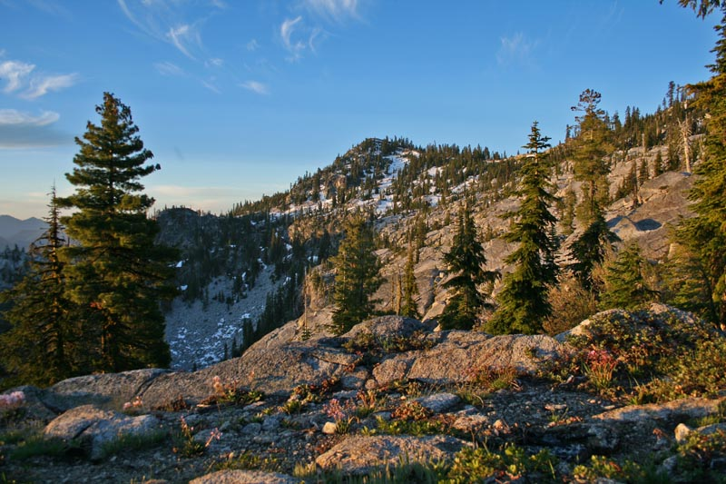 English Peak, at the headwaters of the North Fork of the Salmon River, is the crown of a region filled with unique plants and beautiful topography. Visit for more information about the region.